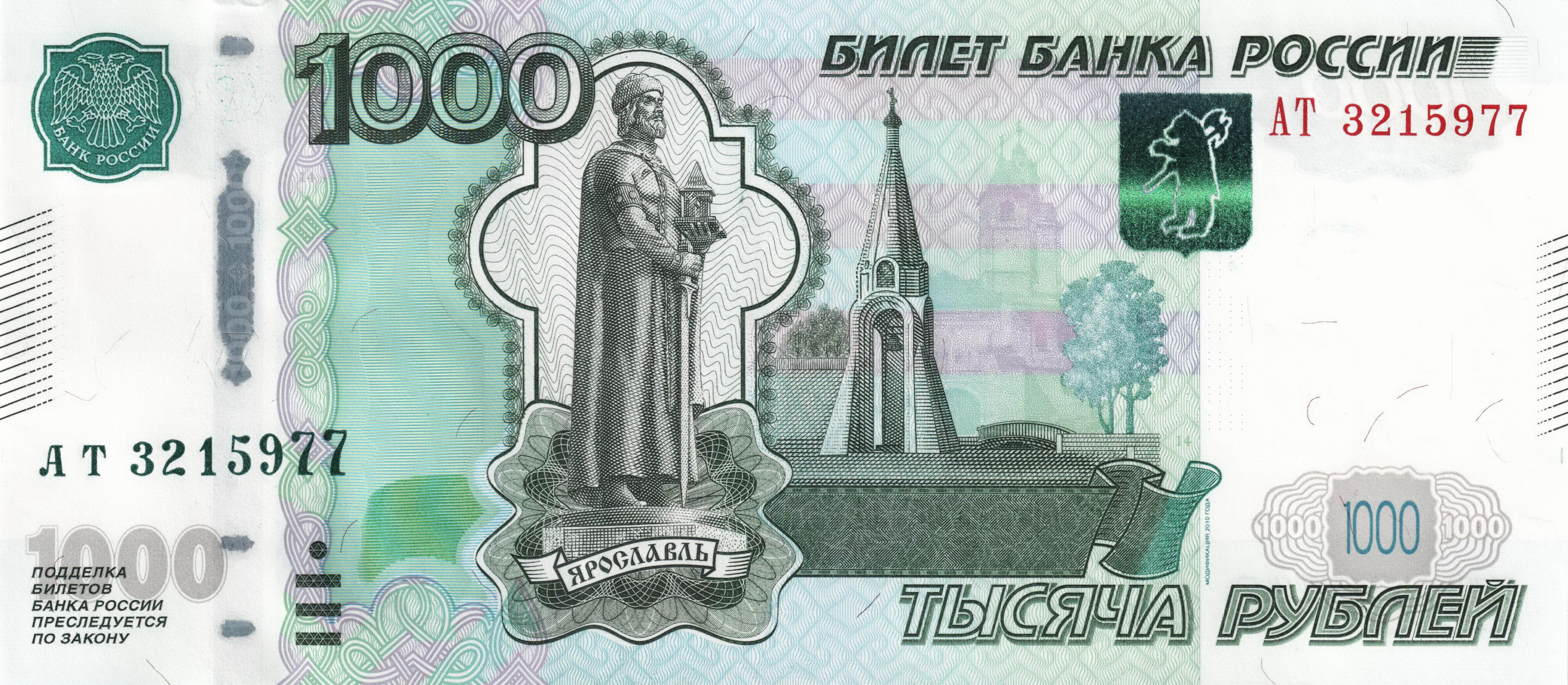 Russian banknote. 1000 rubles. Version of 2010 year. Front